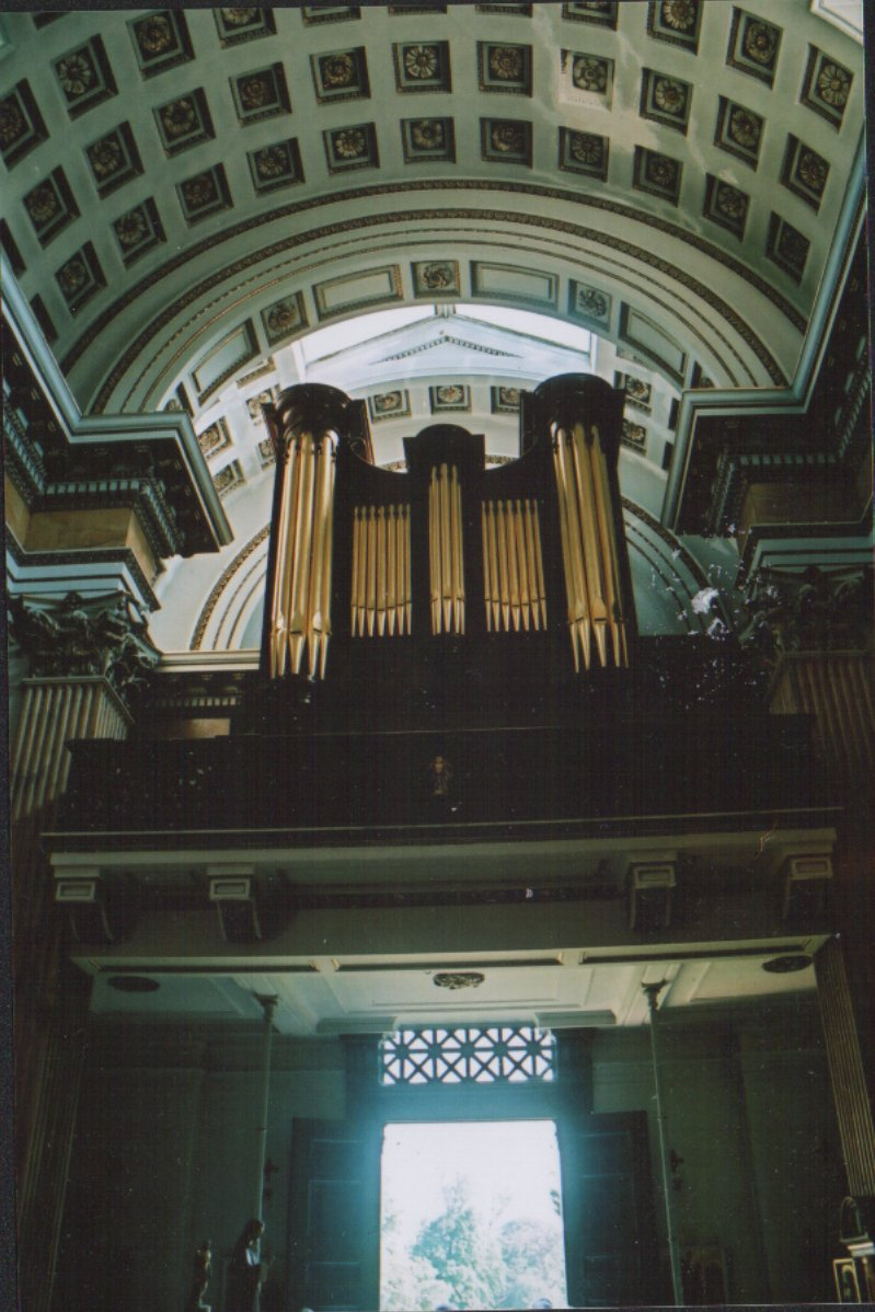 Organ and Choir Loft of St Mary the Virgin and St Everilda's Roman Catholic Church, Everingham, East Riding of Yorkshire, England.I took the photograph